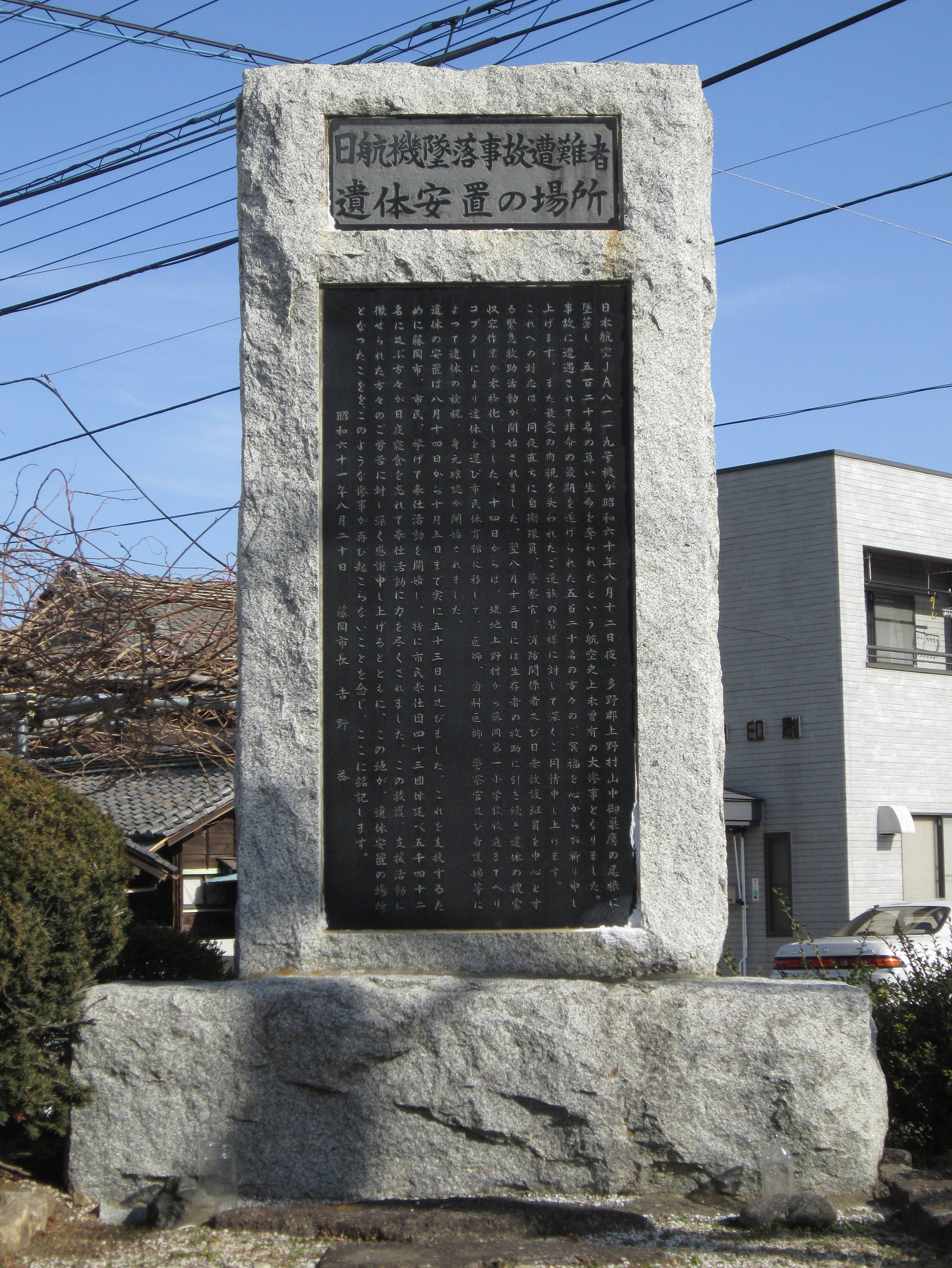 Fujioka city Japan Airlines Flight 123 accident monument.